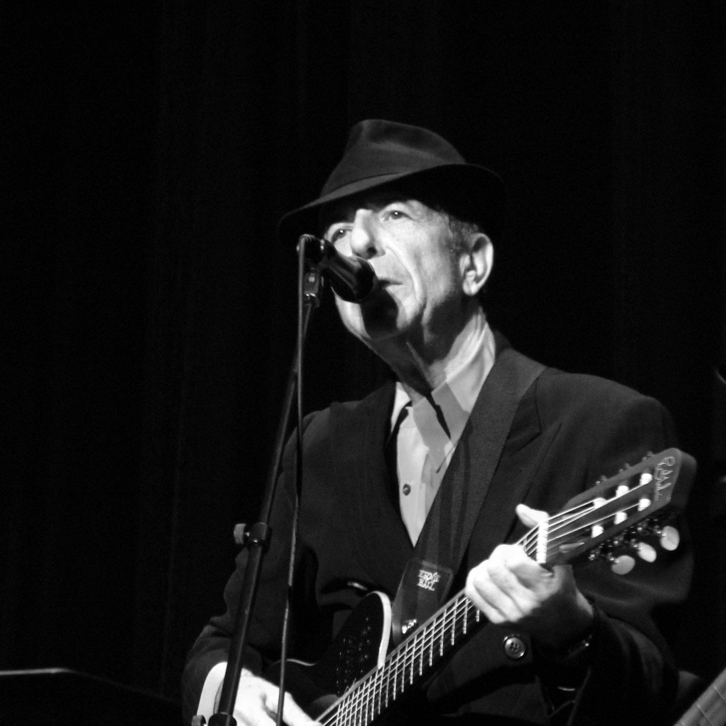 Leonard Cohen